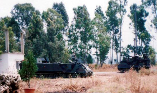 M113 APCs of the Lebanese army in a military base in Akkar, North Lebanon.